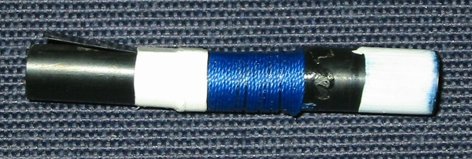 Tenor drone reed made of plastic